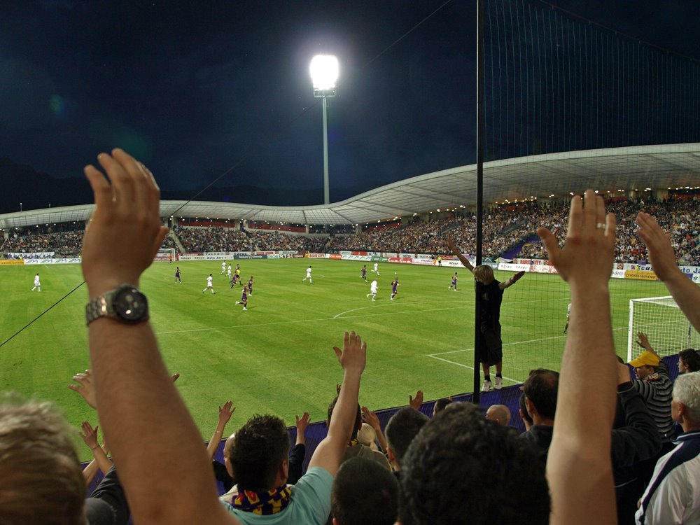 Ljudski vrt 2008 opening match